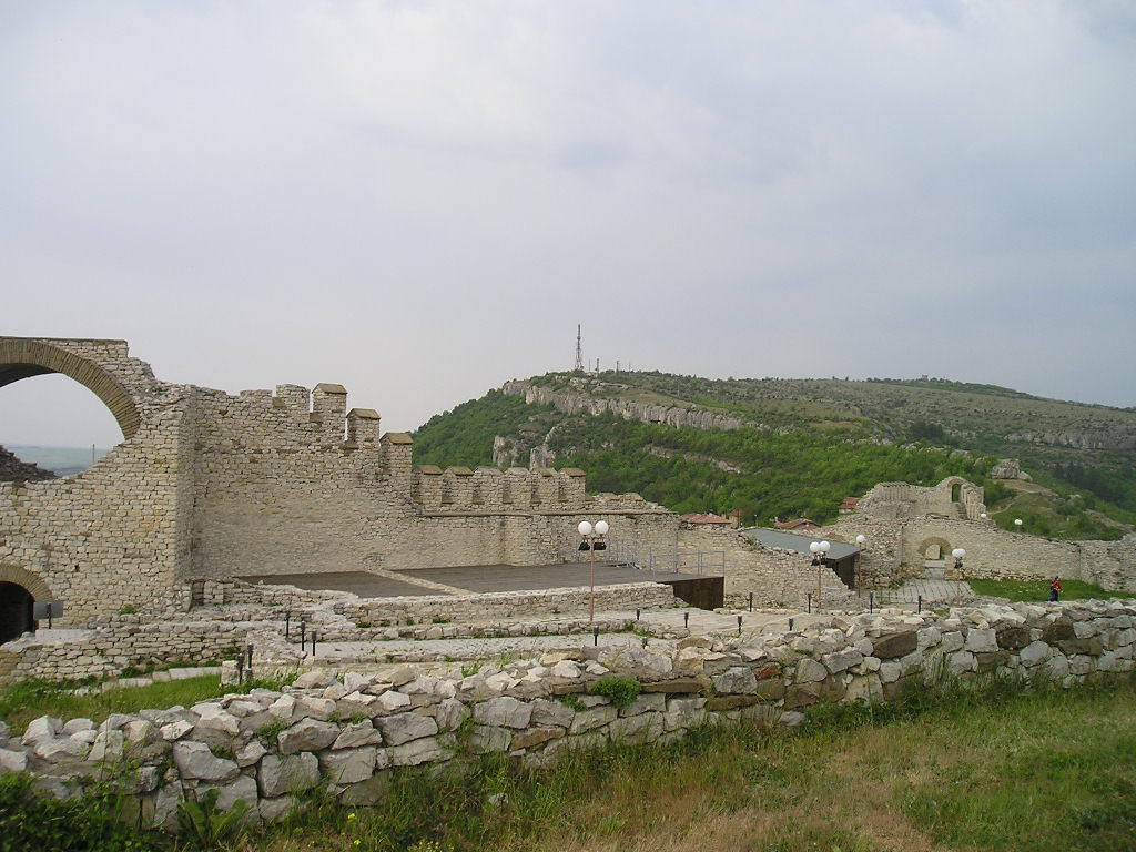 Hisarya castle in Lovech, Bulgaria